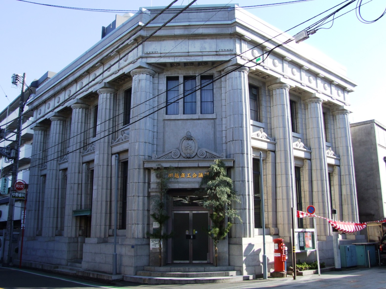 Kawagoe Chamber of Commerce (Former Bushu Bank Kawagoe Branch), Kawagoe, Saitama, Japan